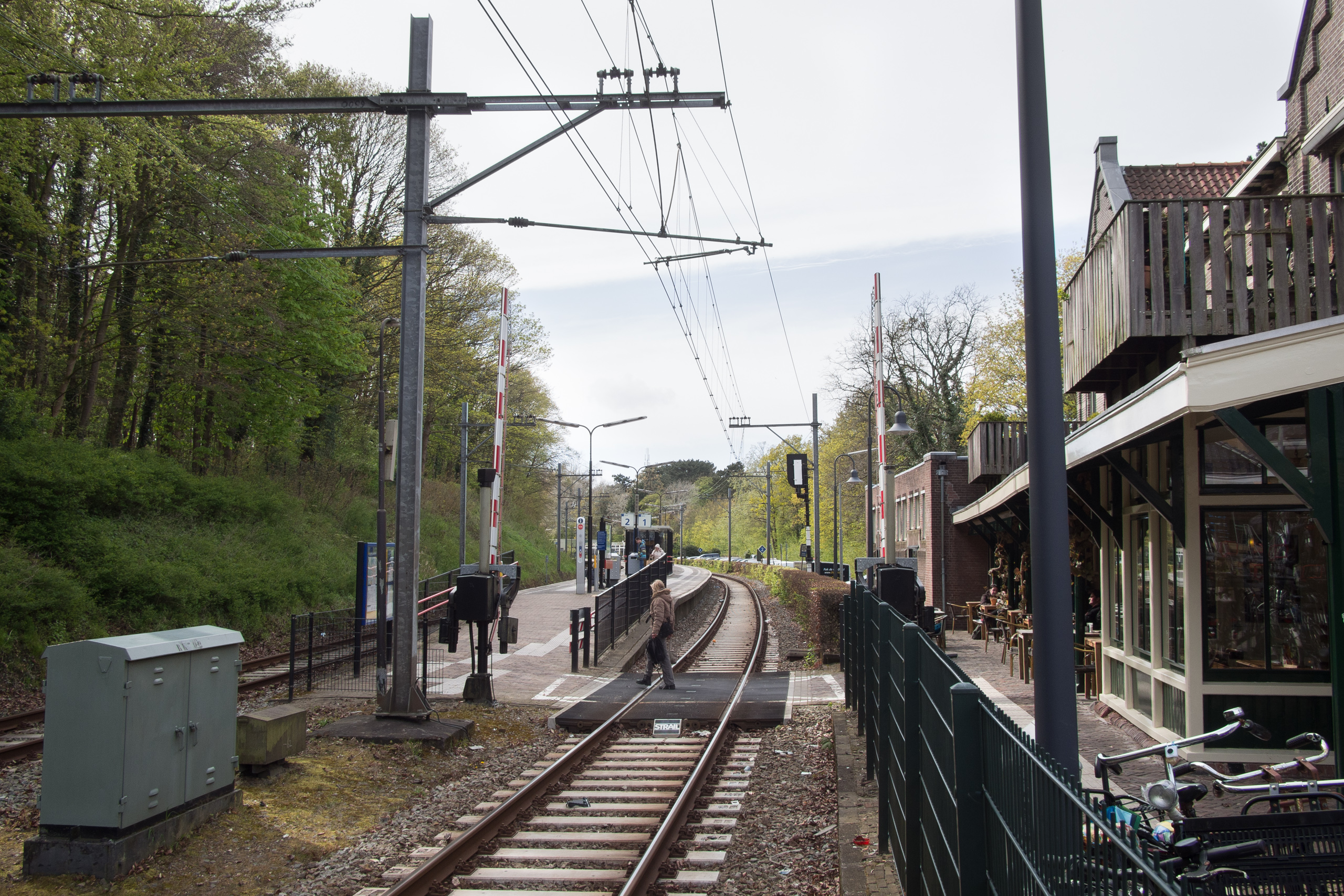 Overveen train station. View towards the west. In the distance one can see Dutch mountains (=clouds... ;-) )